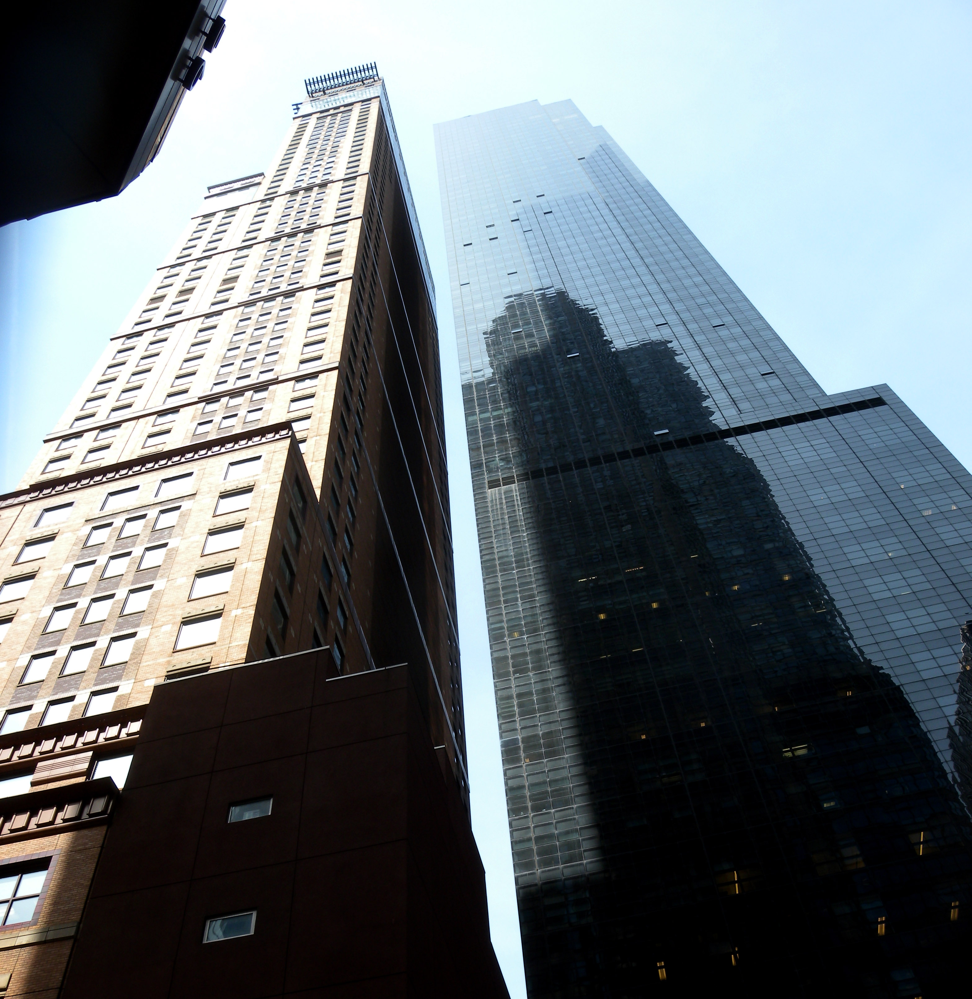 Looking north and up at Carnegie Tower (left), Metropolitan Tower and, reflected in Met, CitySpire Tower.